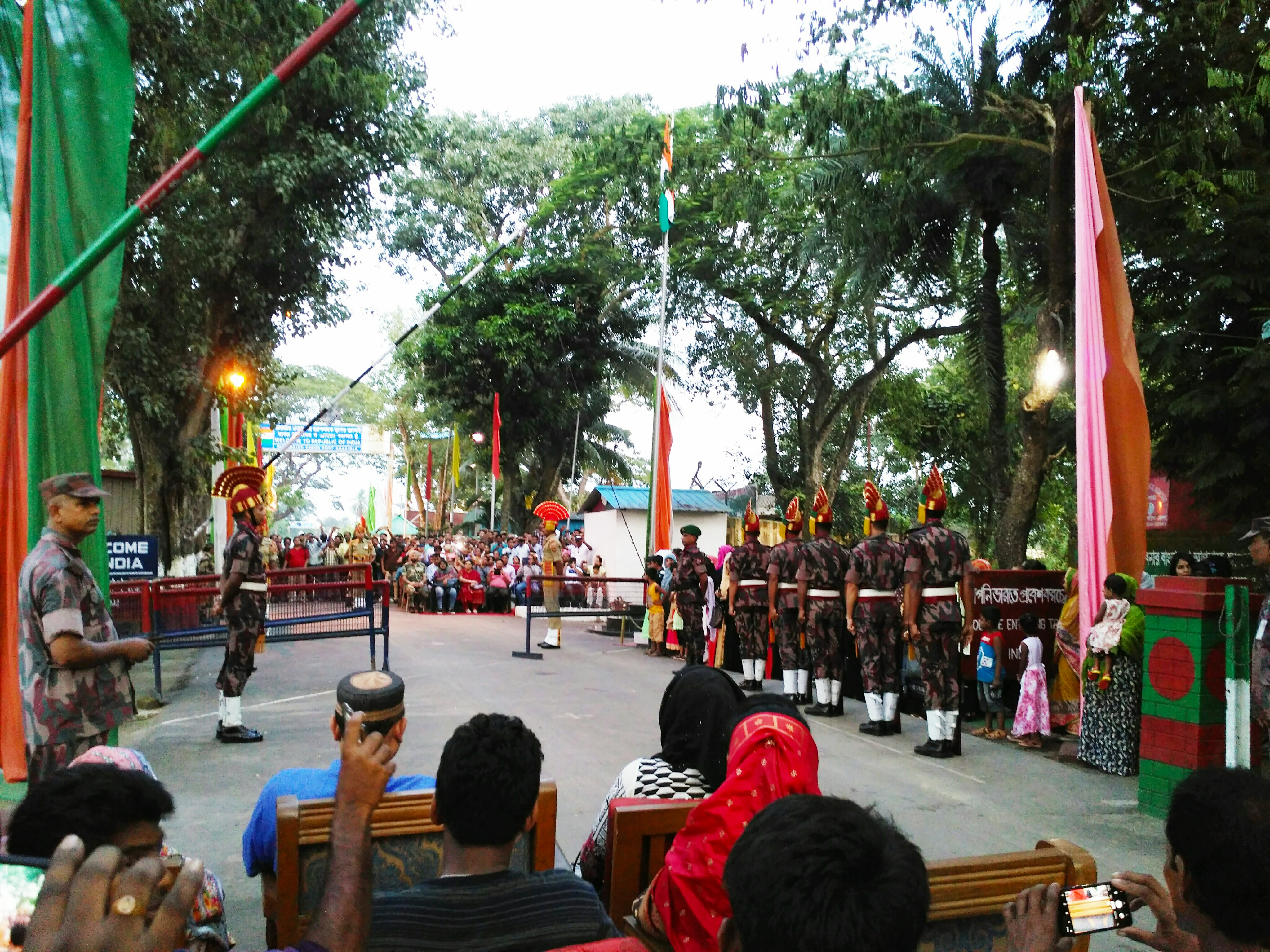 March past of BGB and BSF at Akhaura land port when flags are taken down in the evening. Brahmanbaria.